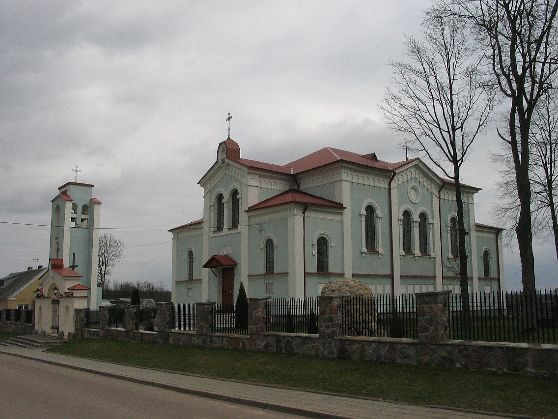 Roman Catholic church in Jałówka, gm. Michałowo, Poland